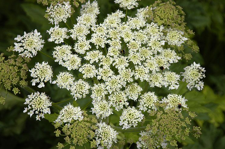 Tromsøpalme Heracleum persicum, syn. Heracleum laciniatum, H. tromsoensis, (etc). Sett ovenfra. As seen from the top. Photo: Krister Brandser.